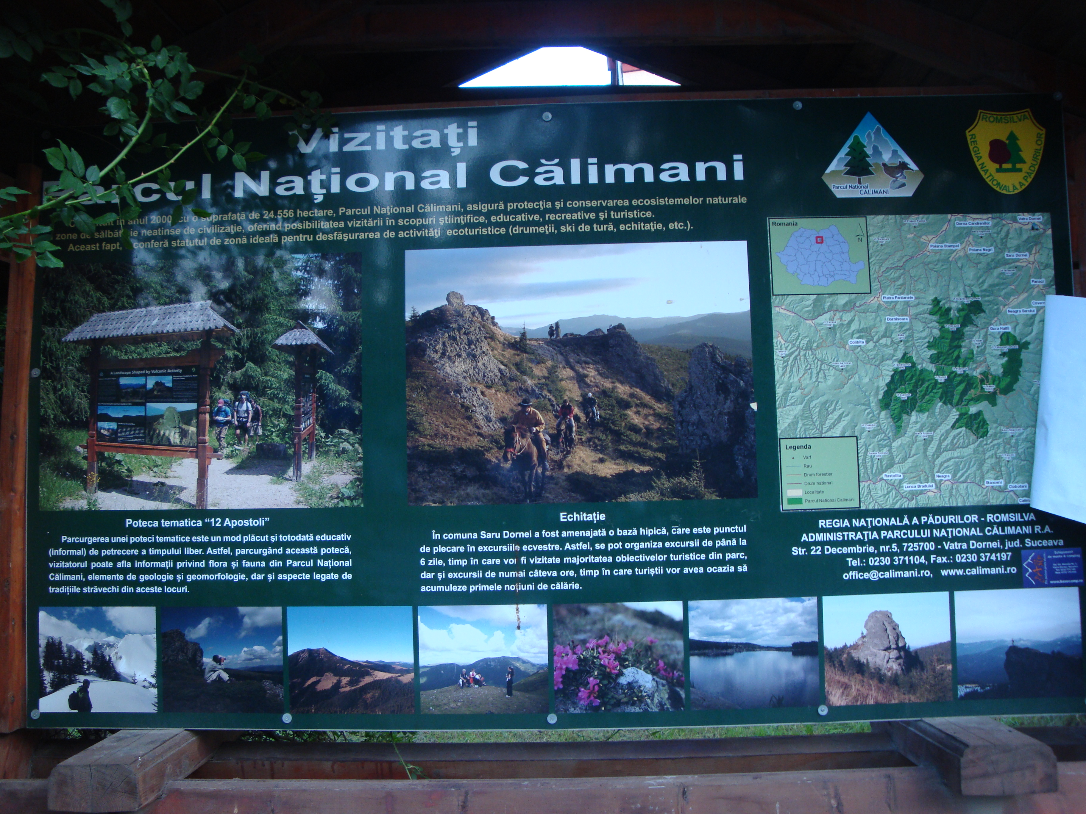 Călimani National Park